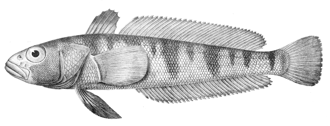 Patagonotothen wiltoni